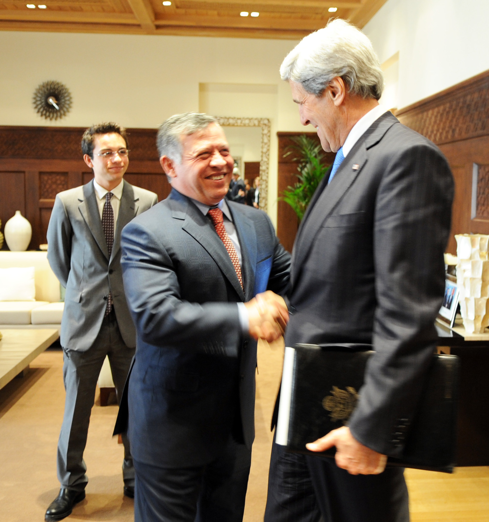 With Crown Prince Hussein bin Abdullah looking on, U.S. Secretary of State John Kerry is greeted by Jordanian King Abdullah II at Al Hummar Palace in Amman, Jordan, on May 22, 2013. [State Department photo/ Public Domain]